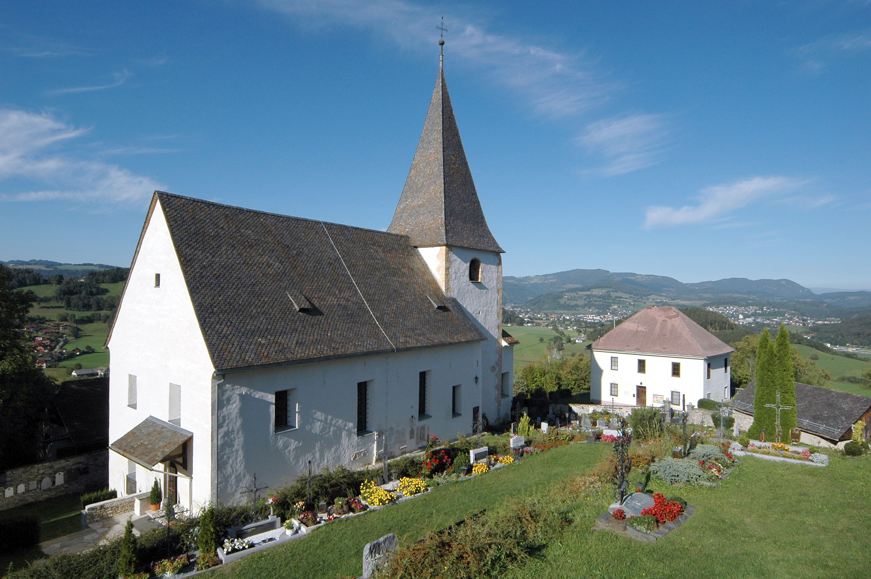 Parish church St. James the Greater and rectory at Tiffen, municipality Steindorf am Ossiacher See, district Feldkirchen, Carinthia, Austria, EU